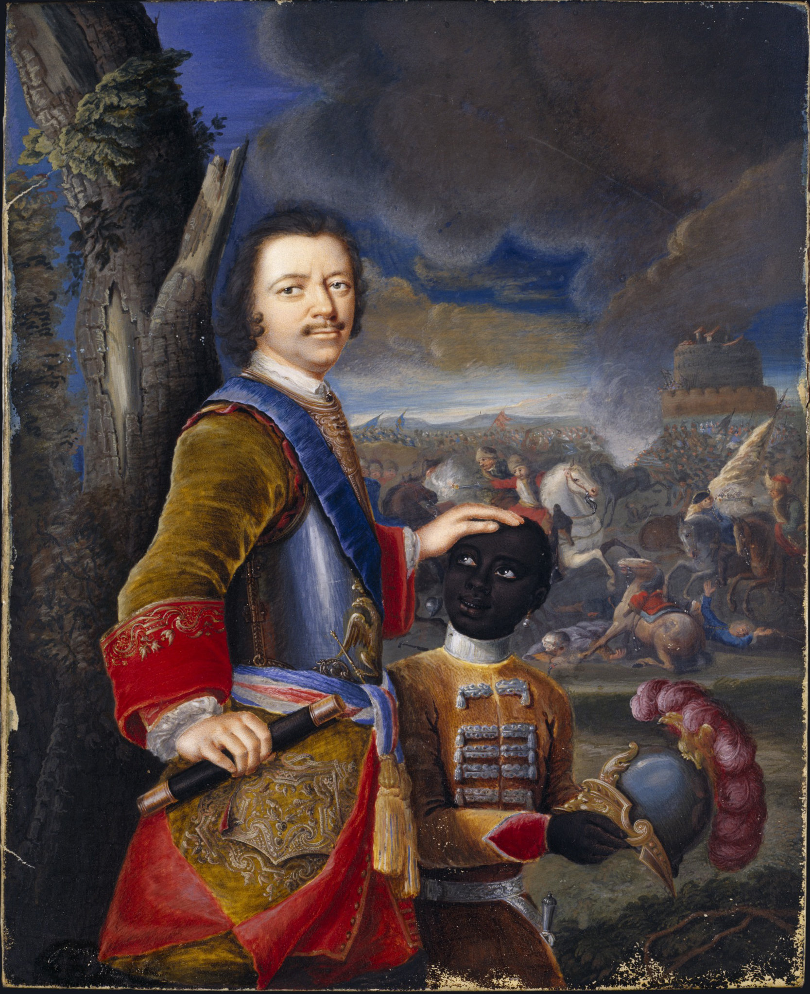 This is a portrait of Peter the Great, Tsar of Russia (1672–1725), and his page boy. It is by the German artist Baron Gustav von Mardefeld and dates from the early 18th century. They are shown on the battlefield and are wearing ceremonial dress. The boy was originally thought to be Abraham Hannibal [also spelt Abram Gannibal] (about 1696–1781), who had been kidnapped from Africa at a young age and adopted by Peter the Great. Hannibal later became chief military engineer in the Russian Army and was the great-grandfather of the famous writer Alexander Pushkin. But at the time that this portrait was painted Hannibal would have been in his mid twenties.